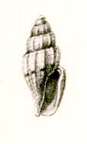 Persicula shepstonensis (E. A. Smith, 1906); family Cystiscidae